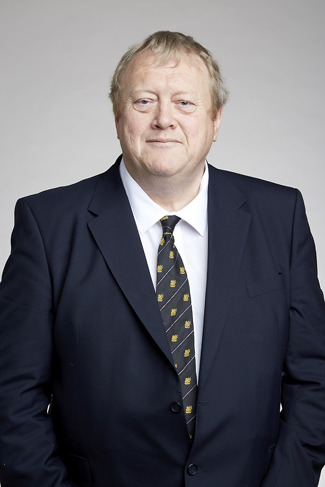 Jonathan Paul Stoye is a virologist at the Francis Crick Institute in London, England. He has made substantial contributions to scientific understanding of the interactions of retroviruses with their hosts. Attribution: The Royal Society